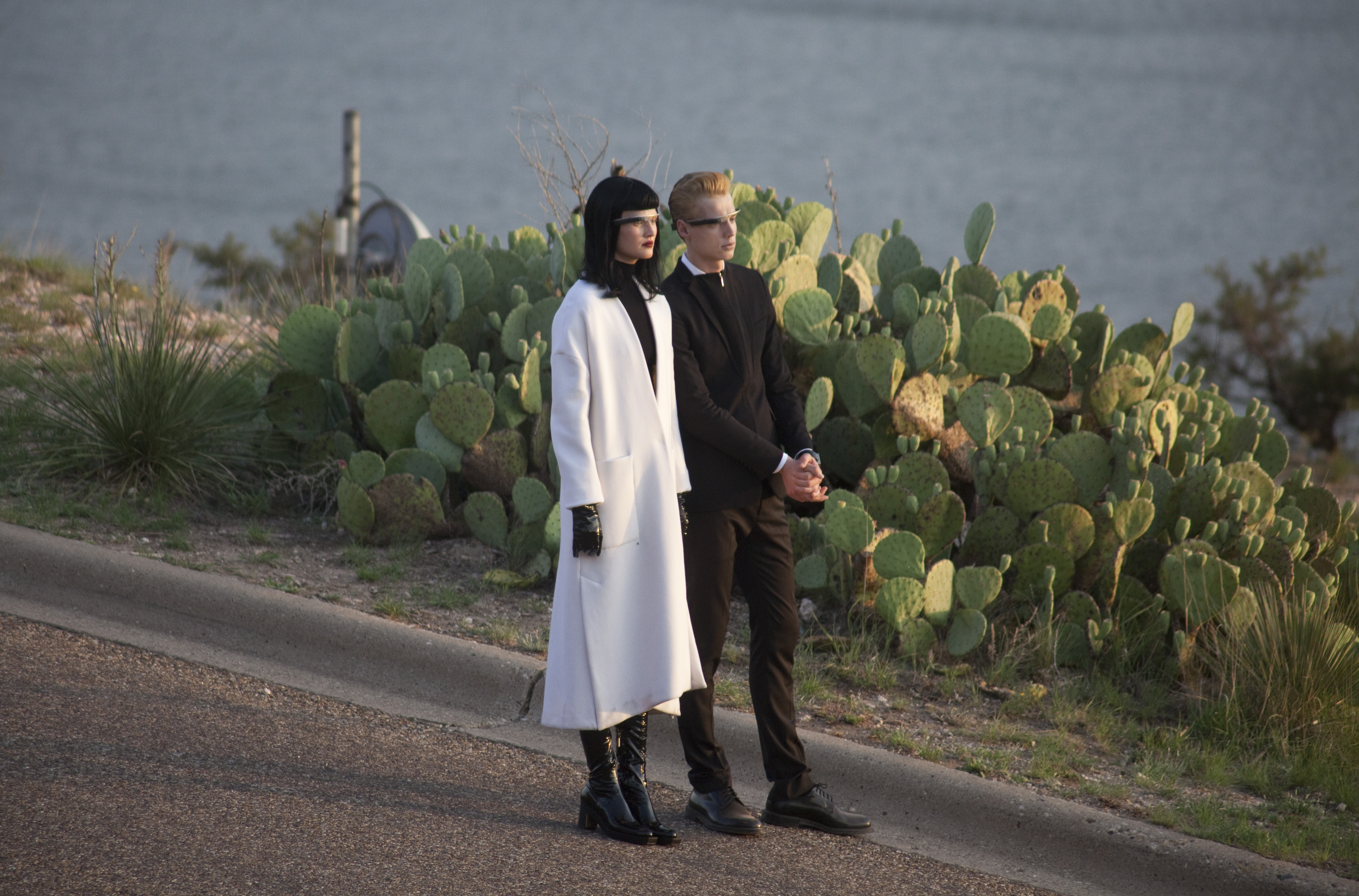 Models Toni Garrn and brother Niklas Garrn wearing Google Glass and the latest fall fashions at a Vogue (magazine) photo shoot in Ransom Canyon, Texas. These models were standing on a public street with prickly pear catus (Opuntia) and Lake Ransom Canyon in the background.